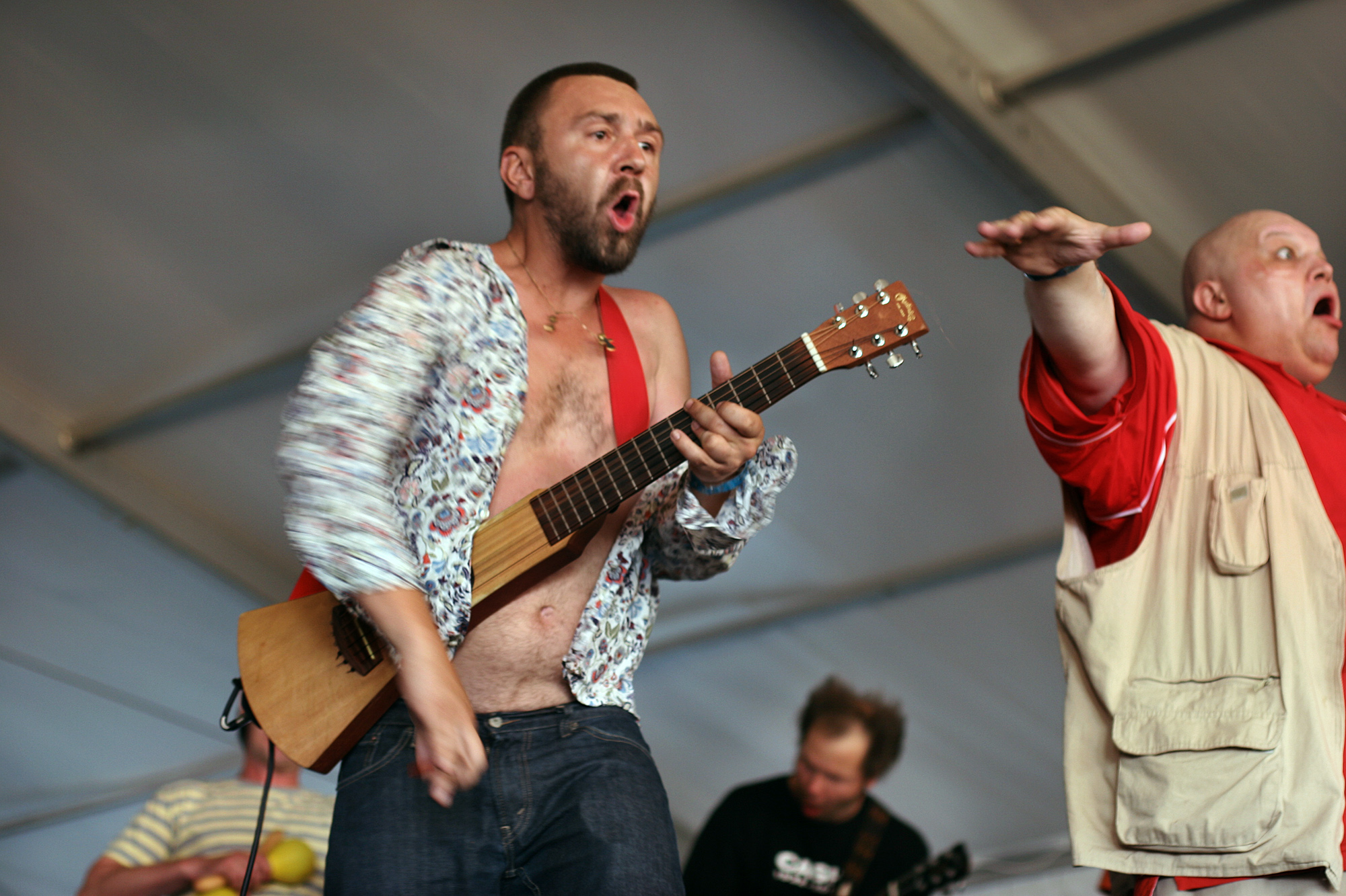 Sergei Shnurov with the band Leningrad (band) performing in 2007